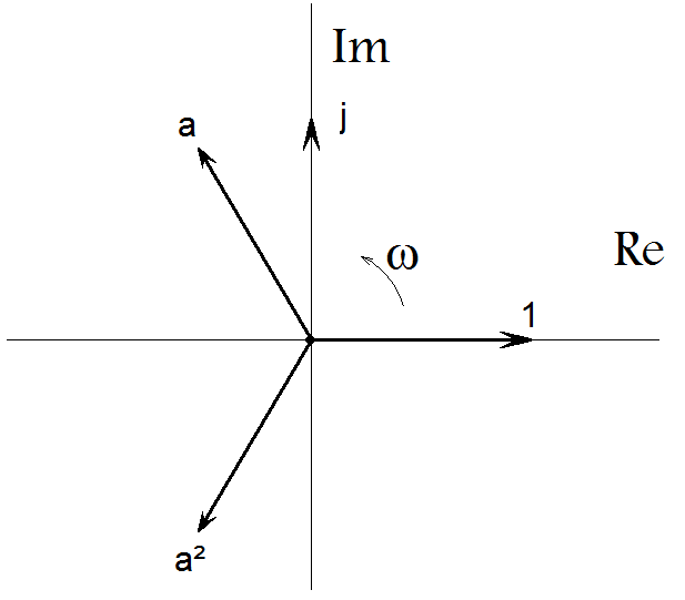 The eigenvectors 1, a and a² are the base of the symmetrical three-phase system